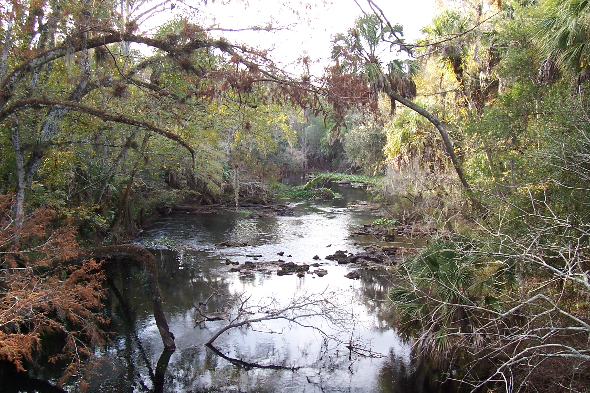 Hillsborough River State Park in northeast Hillsborough County, Florida